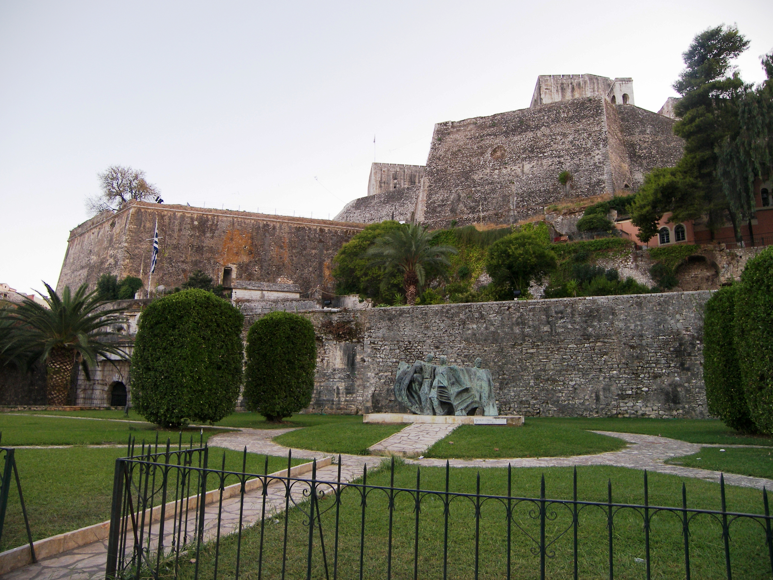 Please see filename